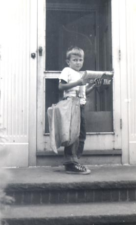 Paul_F._McManamon delivering a newspaper when I was in 3rd grade.